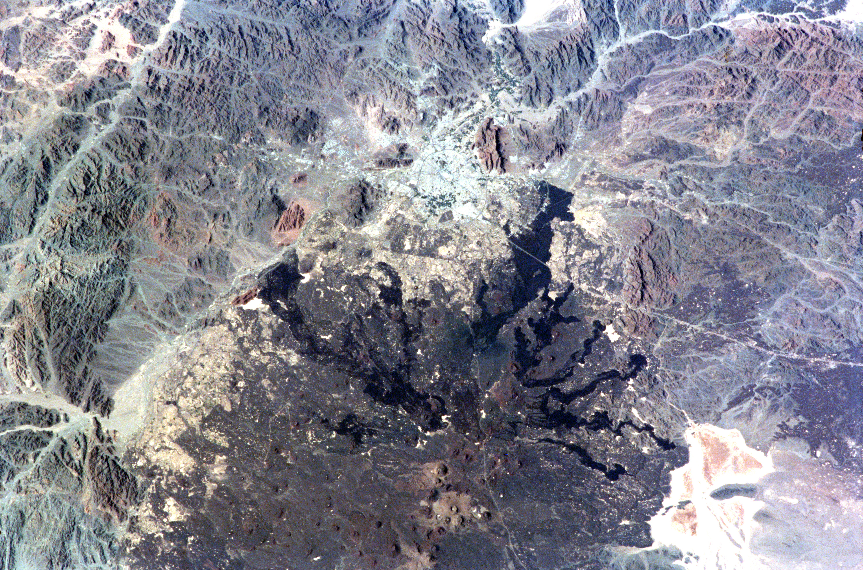 The northern part of Saudi Arabia's largest lava field, 20,000 sq km Harrat Rahat, is seen in this Space Shuttle image (with north to the upper left). Harrat Rahat extends for 300 km south of the holy city of Madinah (Medina), the light-colored area at the top-center. Although basaltic scoria cones dominate Harrat Rahat, small shield volcanoes and pelean-type lava domes are also present. The best-known eruption took place in 1256 AD, when the large dark-colored flow seen extending to the upper right traveled 23 km to within 4 km of Madinah.